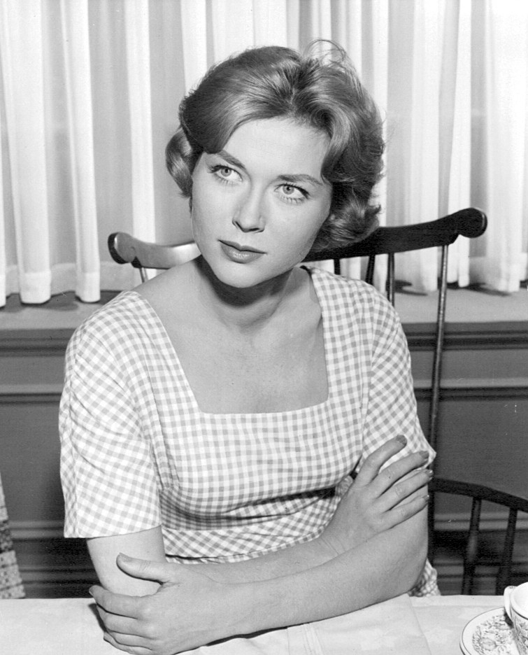 Photo of Gia Scala from an appearance on Alfred Hitchcock Presents. The presentation was "Mother, May I Go Out to Swim". The item has no copyright markings on it as can be seen in the links above.